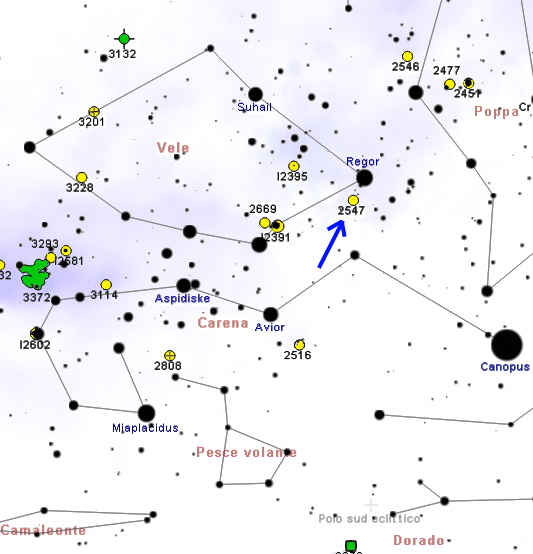 NGC 2547